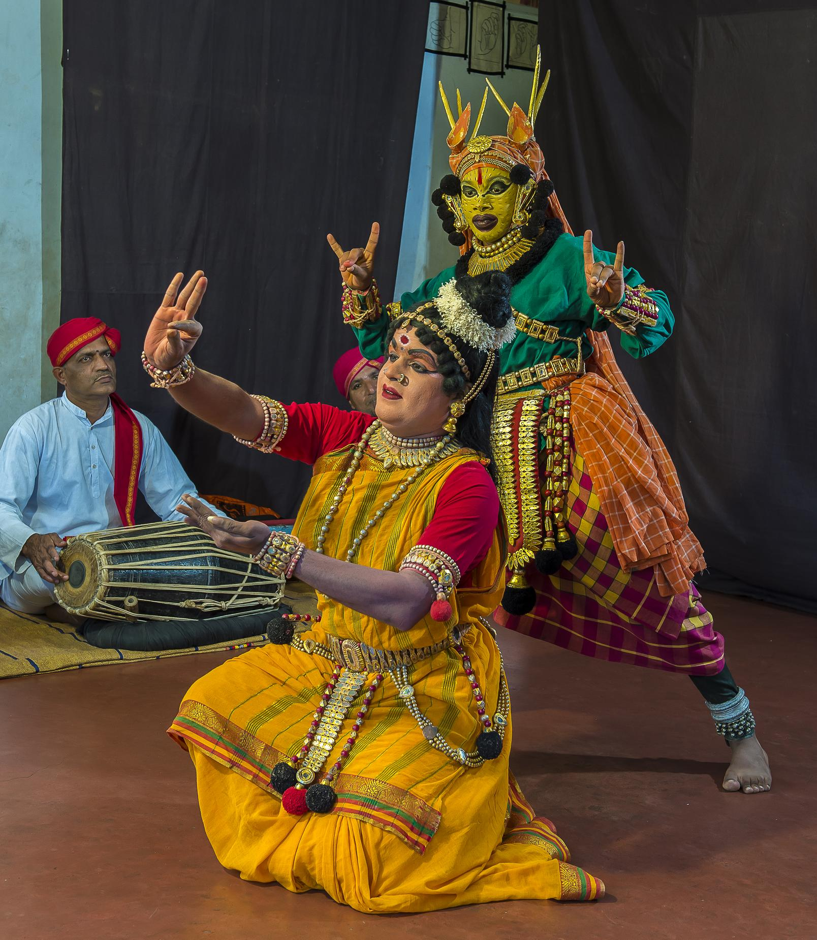 Jatayu